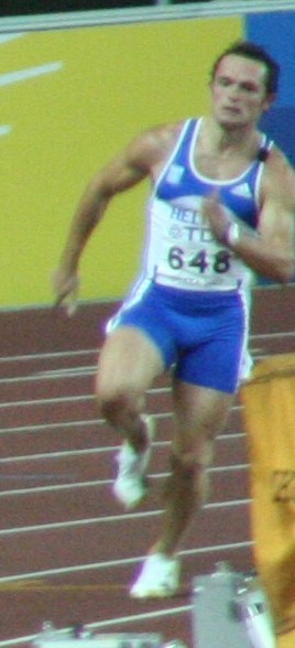 World Athletics Championships 2007 in Osaka: Anastásios Goúsis